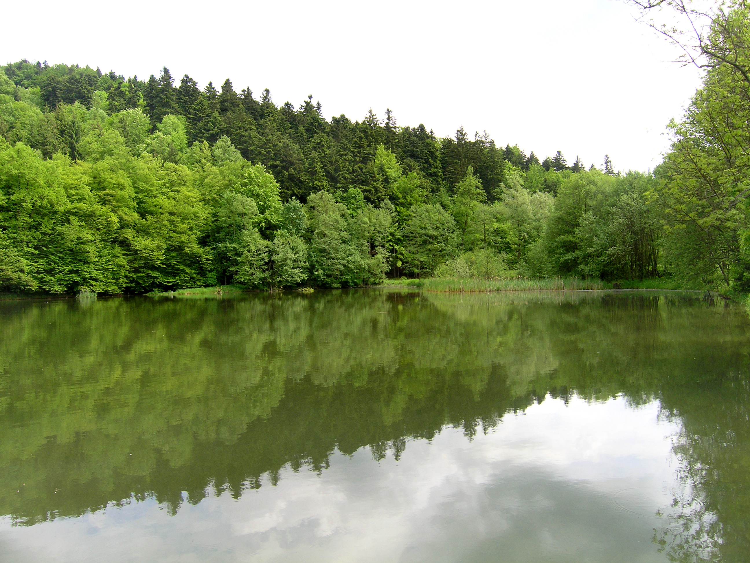 Rybník Neratov natural reserve, Czech Republic